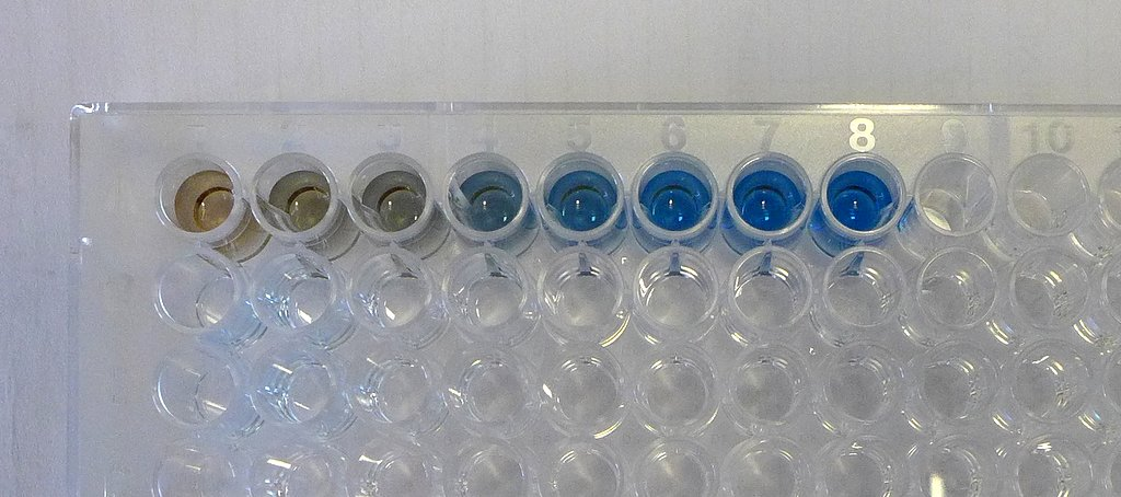 BSA standart concentration Bradford